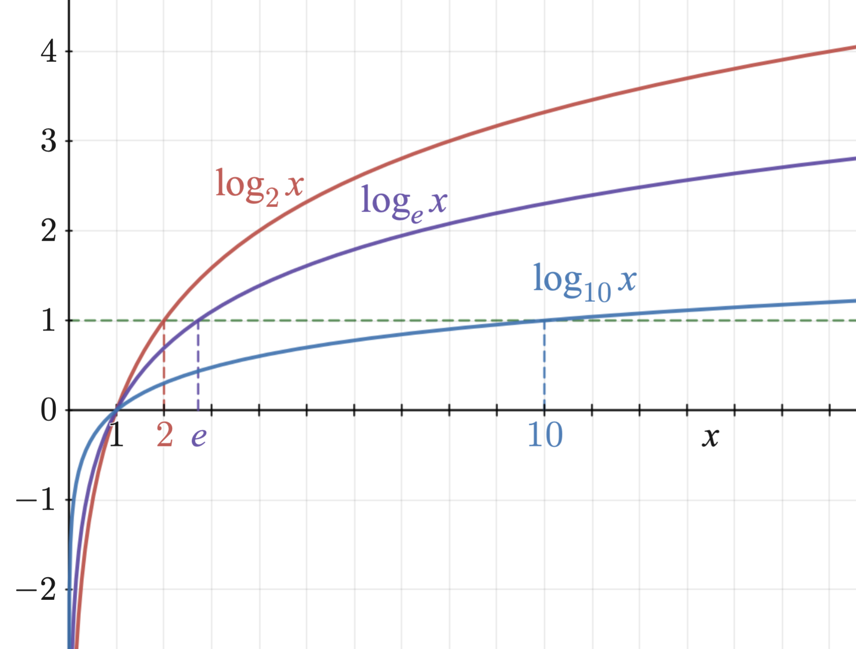 Plot of logarithm function for three common bases